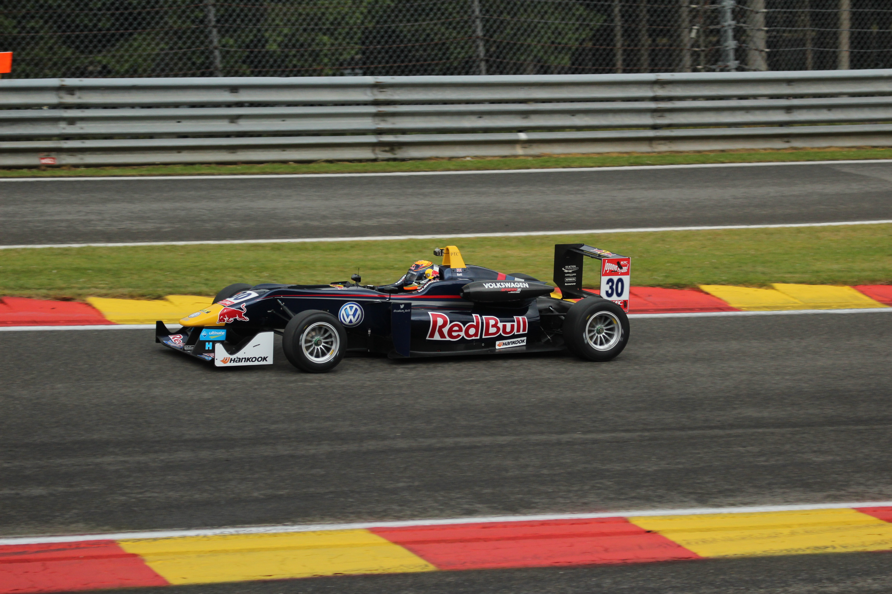 Callum Ilott at Spa in 2015, European Formula 3 Championship